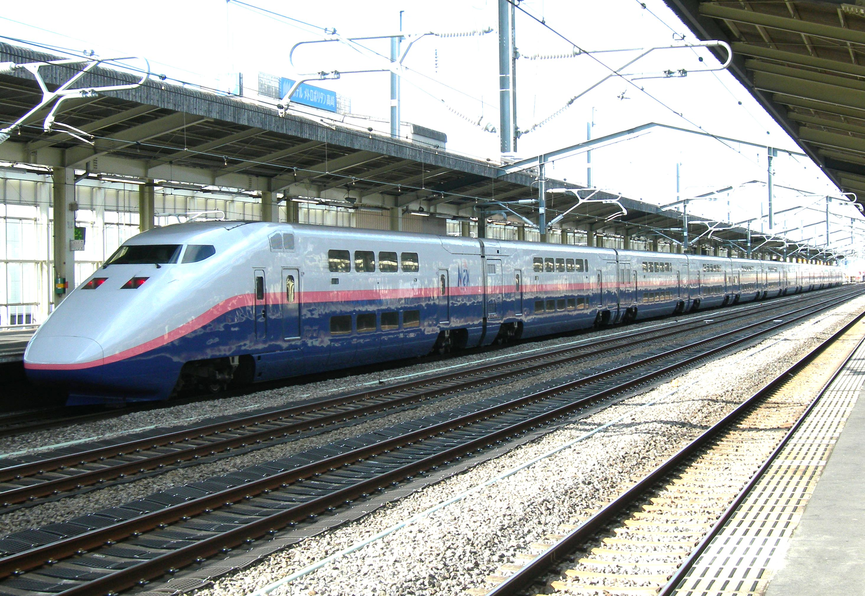 A JR East E1 series shinkansen on a Max Toki service at Takasaki Station